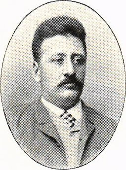 Magnus Alfred Pettersson (1846-1920), Swedish psychiatrist